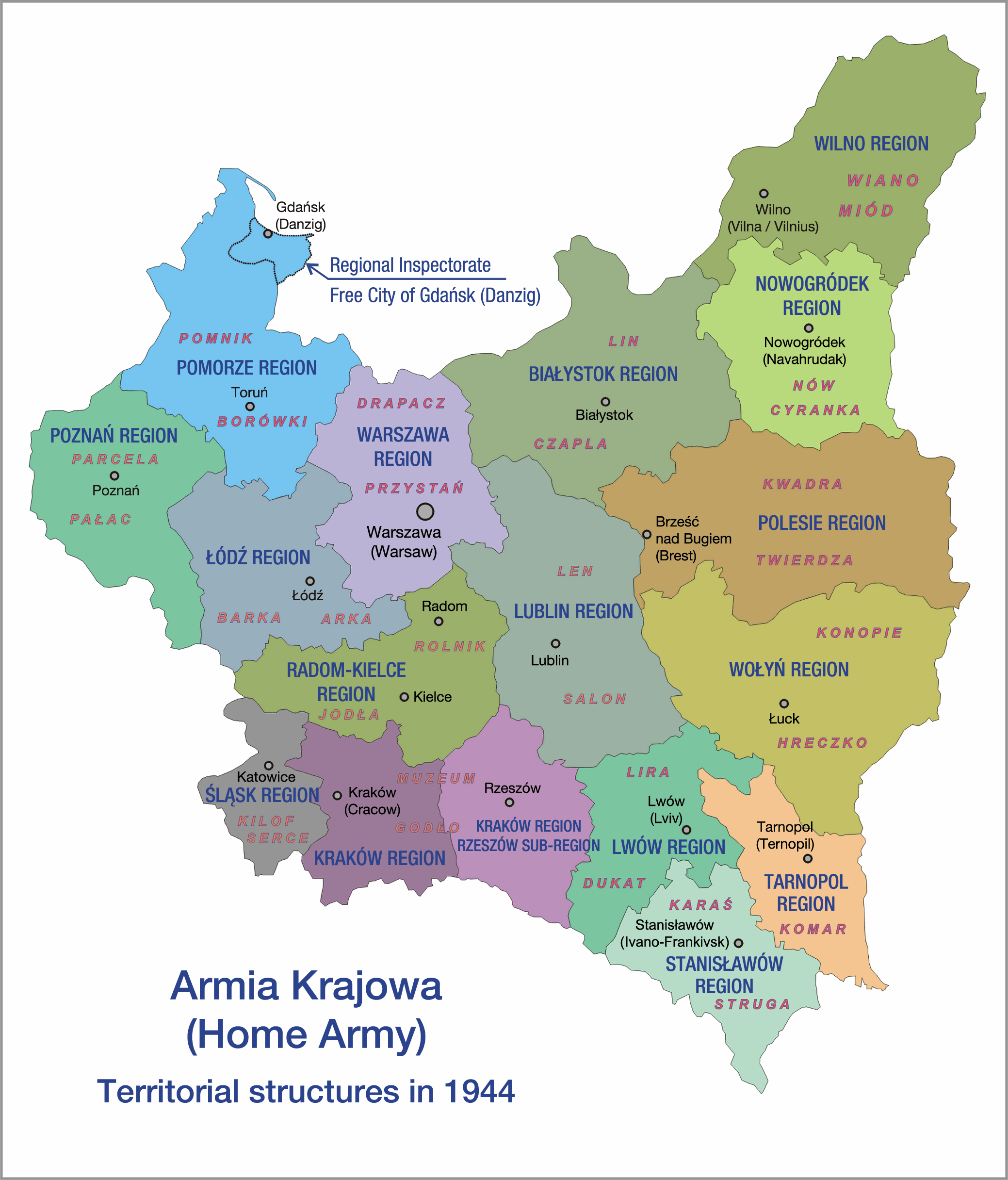 Armia Krajowa - territorial organization in 1944